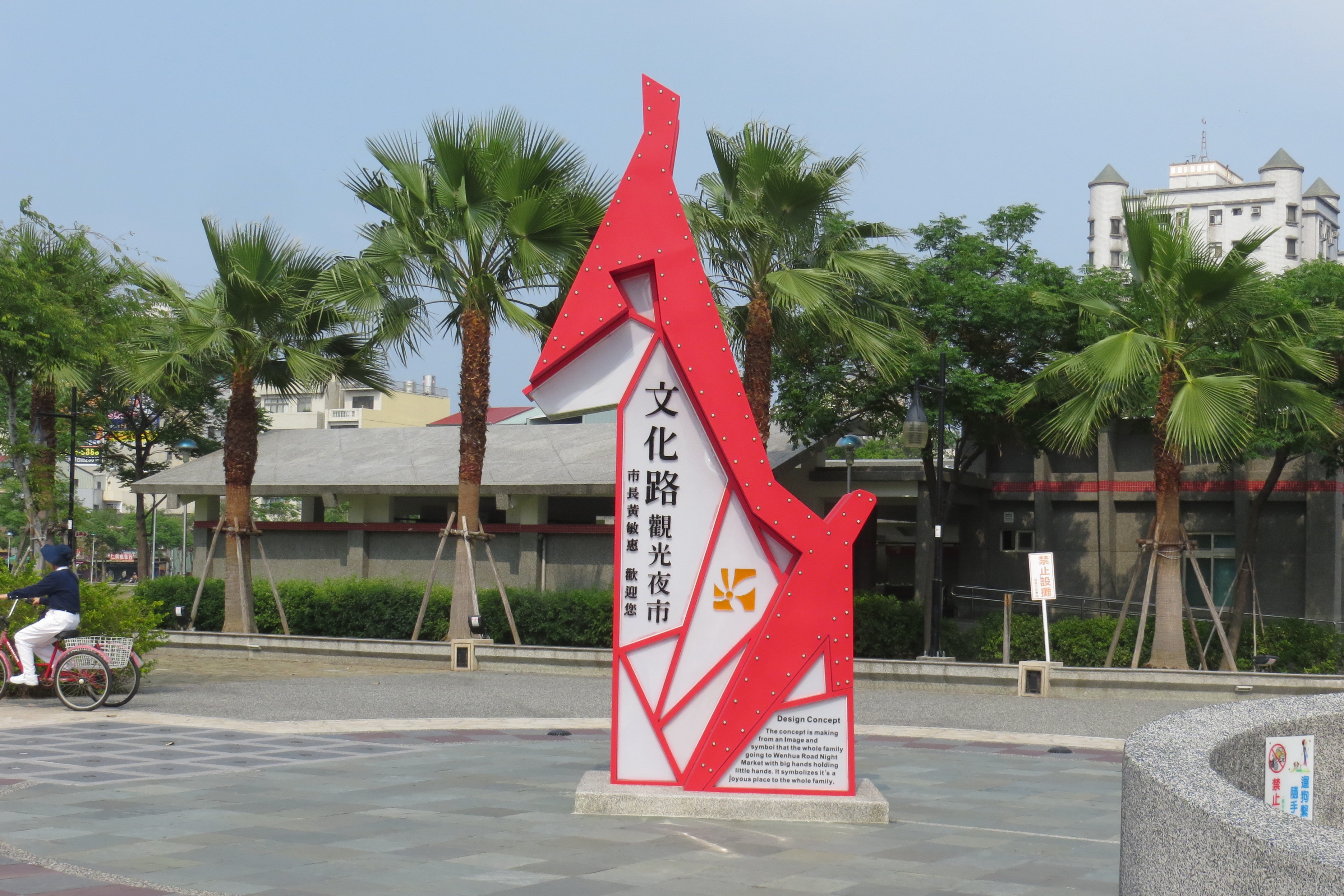 A sign of the Wenhua Road Night Market located at the corner of Chuiyang Road and Wenhua Road, Chiayi, Taiwan.